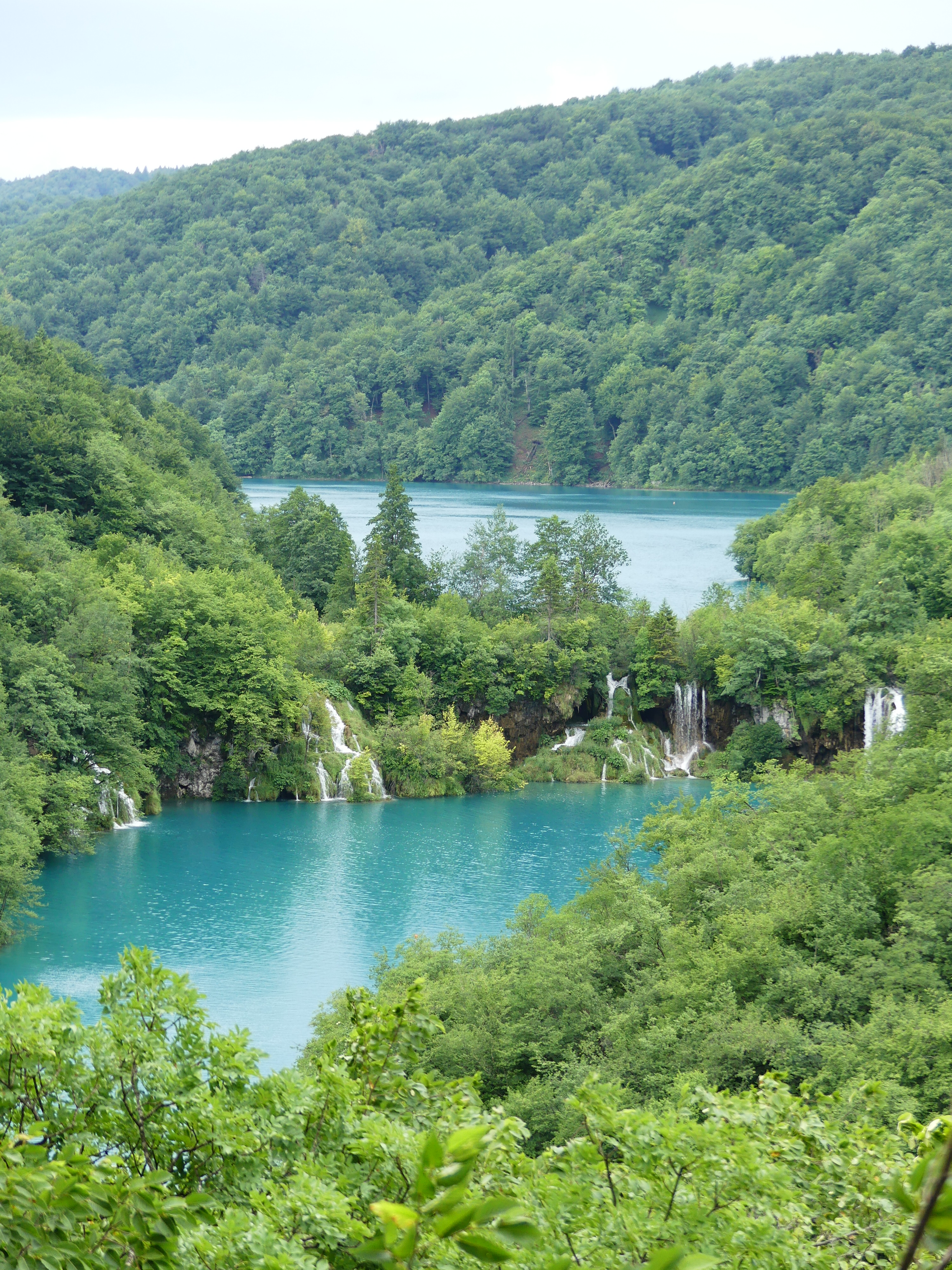 Lakes seen from above